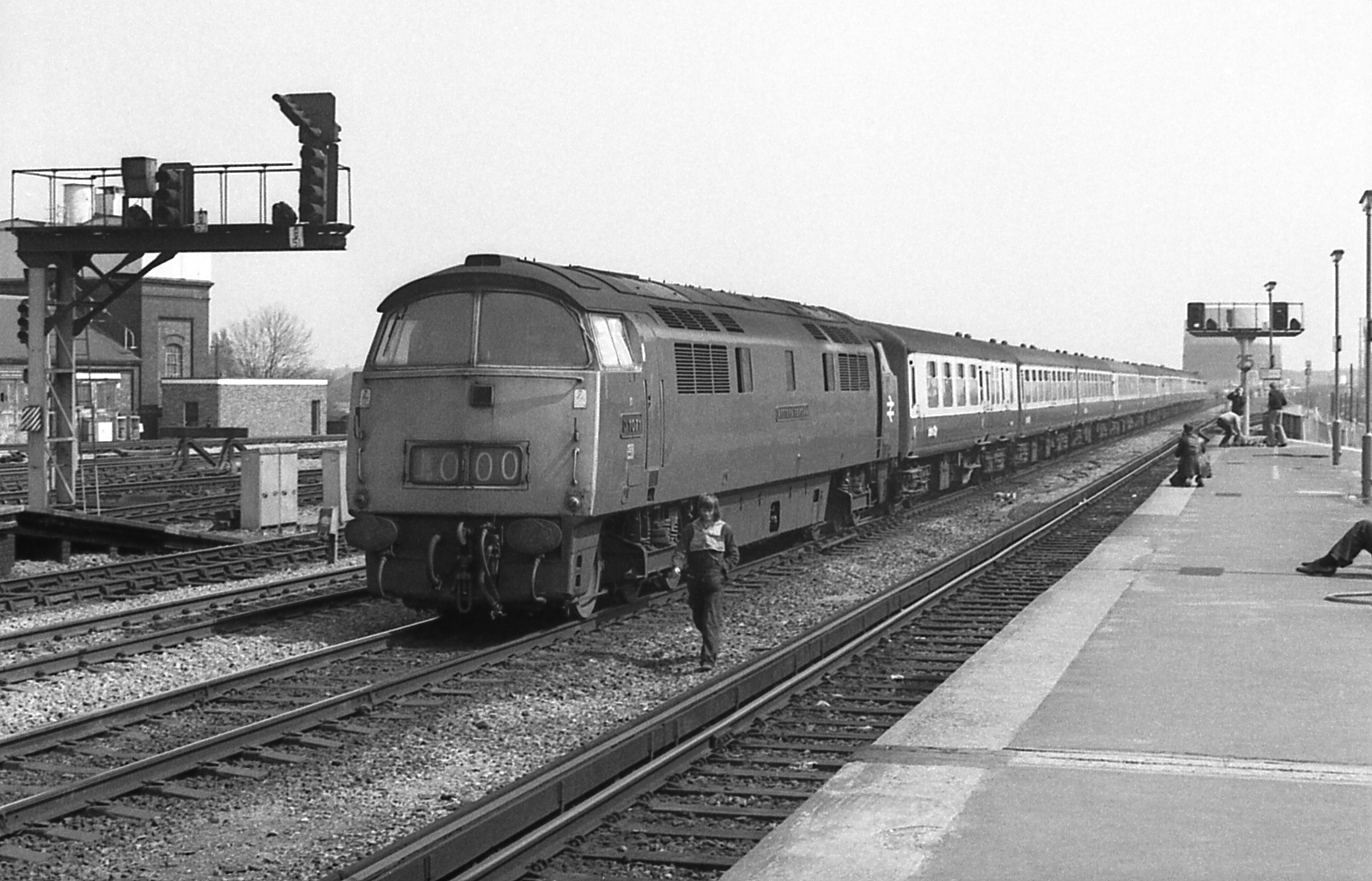 A 'Joe Cool' railway worker strolls along the permanent way in Reading General station as 'Western' class diesel hydraulic No. D1071 "Western Renown" passes with the down 'Cornish Riviera' express on 20th April 1976. Camera: Olympus Pen F Half Frame SLR.